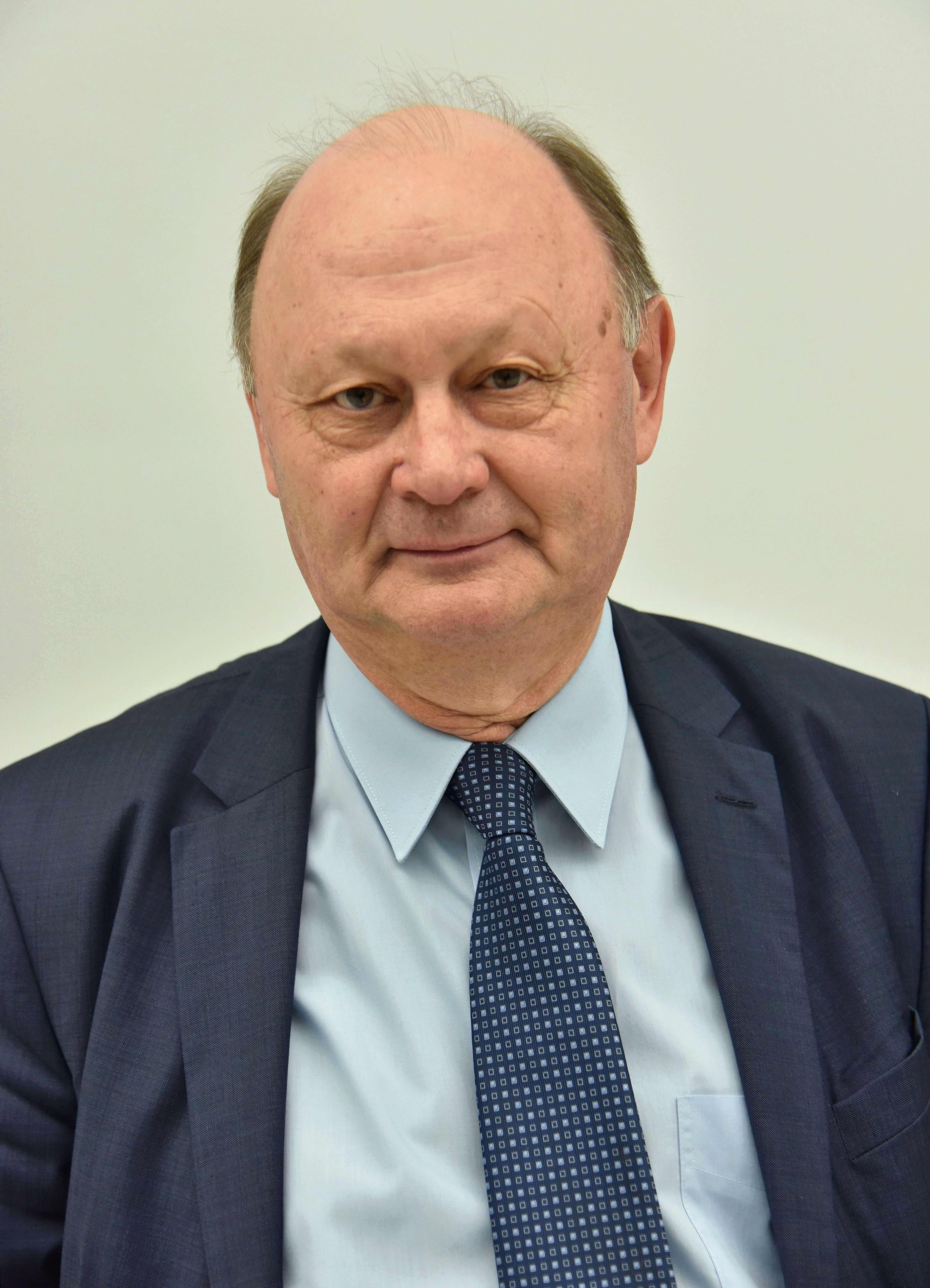 Polish MP Włodzimierz Nykiel in the Sejm